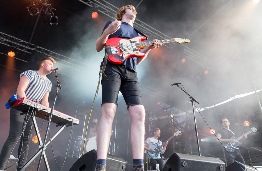 Sebastian Ulstad Olsen with Death By Unga Bunga at the minor stage during Stavernfestivalen in Stavern on 08. July 2016. Lineup:Sebastian Ulstad Olsen (guitar / vocal)Preben Sælid Andersen (keyboard)Stian Gulbrandsen (guitar)Even Rolland Pettersen (bass)Ole Steinar Nesset (drums)